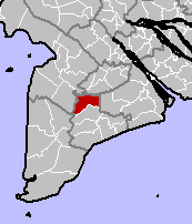 Hong Dan District, Bac Lieu Province, Vietnam.